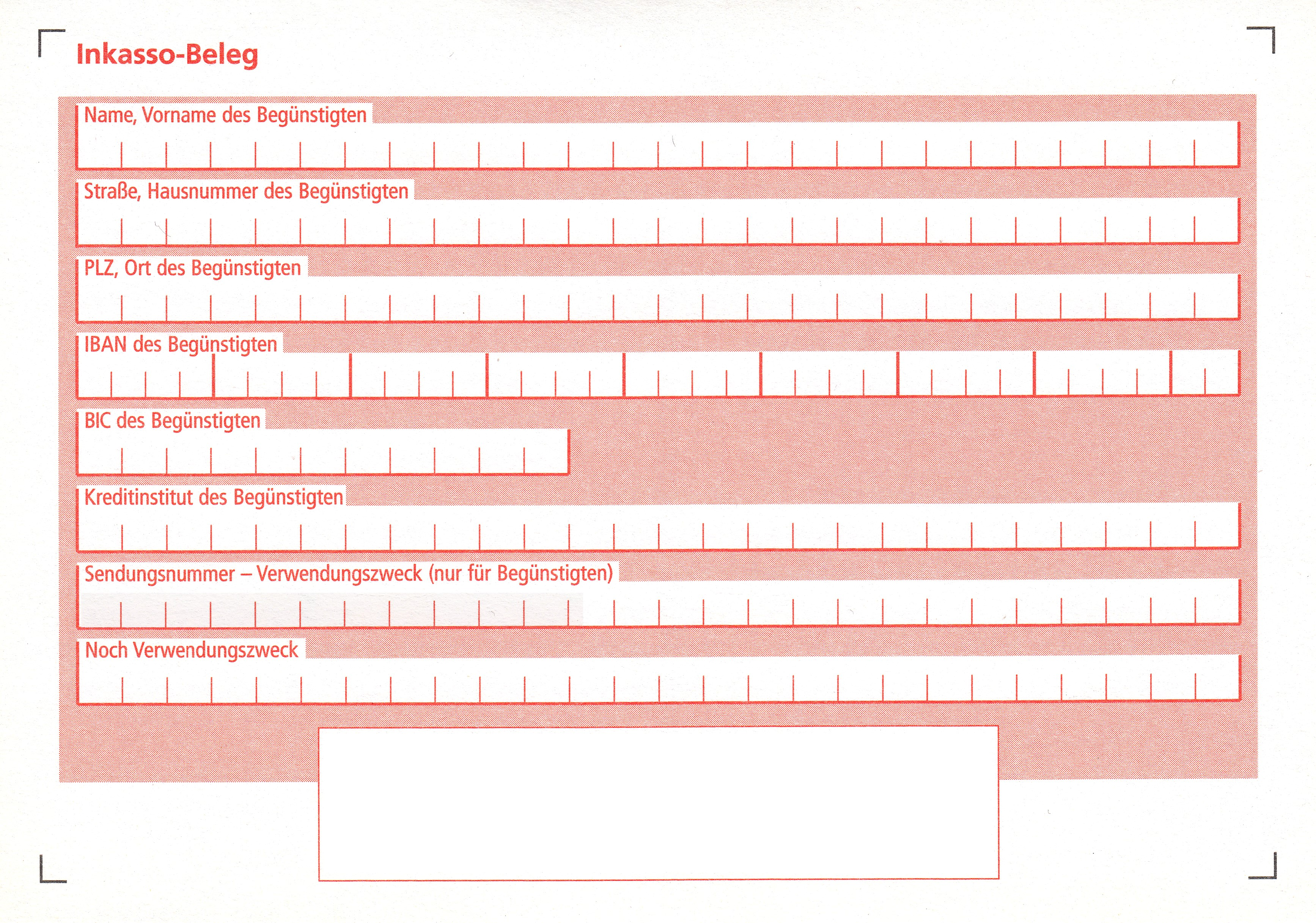 German cash-on-delivery payment form.